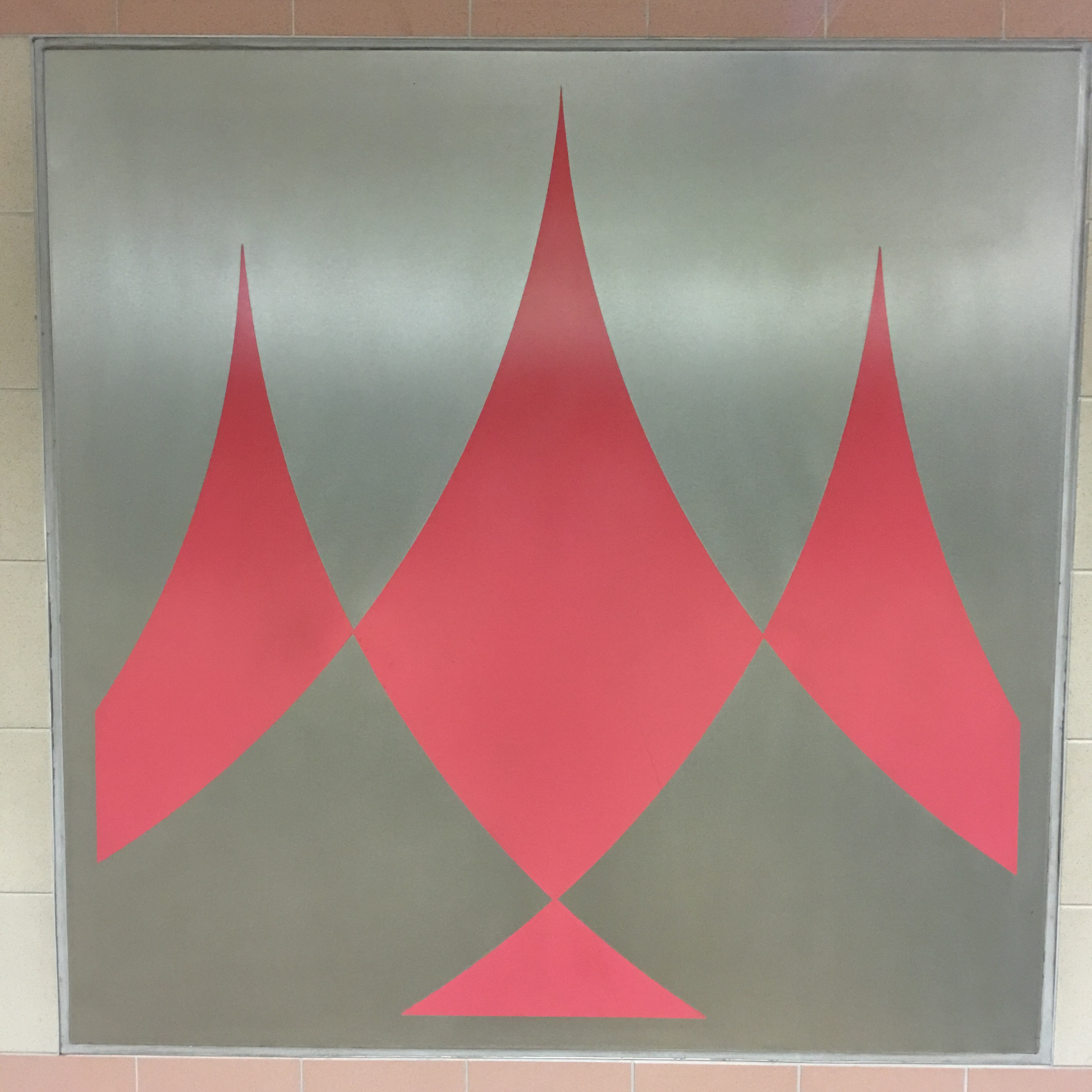 "Chulalongkorn Auditorium roof" - The symbol of Sam Yan Station